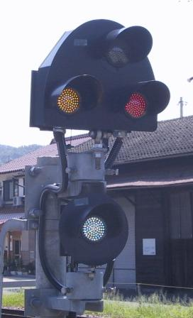 Shunting signal (two-color type) of Japan